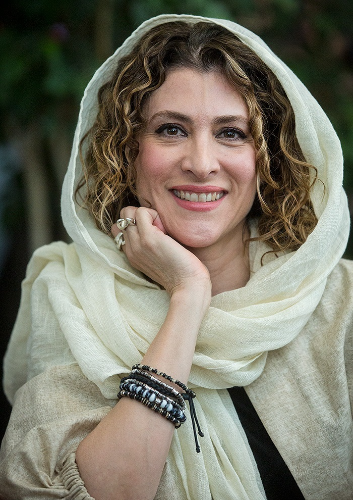 fajr festival april 2019